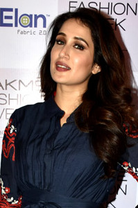 Sagarika Ghatge snapped attending the Lakme Fashion Week 2018